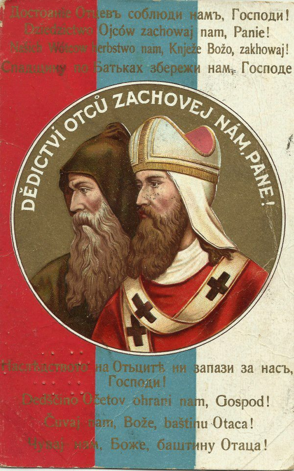 Pan-Slavic postcard depicting Cyril and Methodius, saying, in 9 Slavic languages, "God/Our Lord, watch over our heritage". The postcard is Czech, the illustration includes the Czech "Dědictví otců, zachovej nám, Pane". The other Slavic languages are Russian, Polish, Sorbian, Ukrainian, Bulgarian, Slovene, Croatian and Serbian.